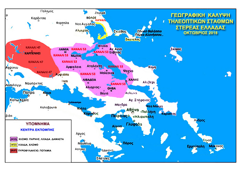 2014-2015 Coverage of Epsilon TV of Sterea Hellas & Euboea